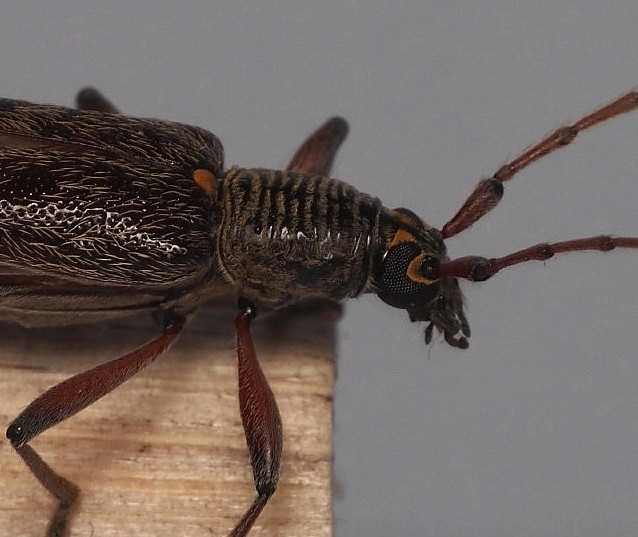 Lemon tree borer (Oemona hirta) as observed by iNaturalist user flossiepip on 11 January 2019